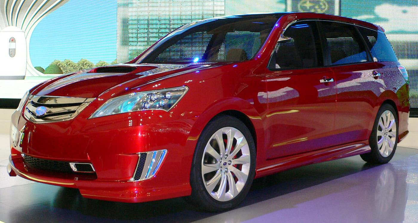 'Subaru Exiga Concept photographed in Tokyo Motor Show 2007